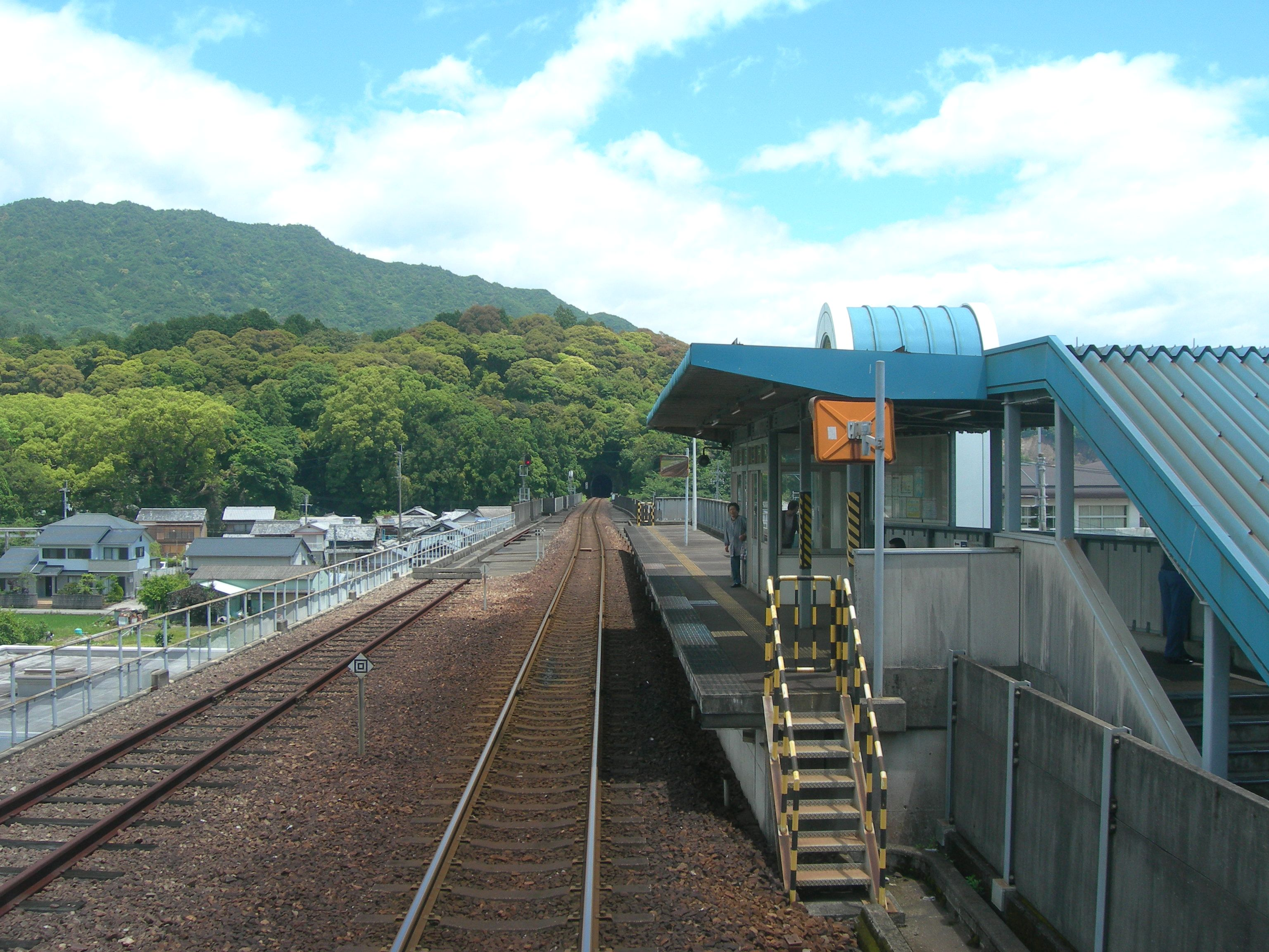 Asa Kaigan Railway Shishikui Station platform